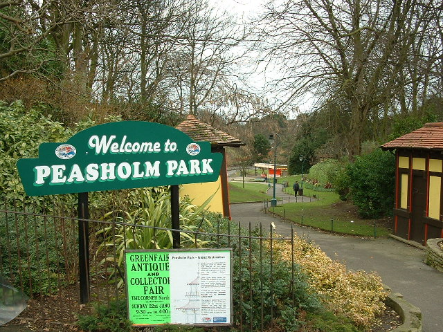 Southern entrance to Peasholm Park. This is the entrance to Peasholm Park at the corner of Peasholm Dr and Columbus Ravine. Visible are some of the concessions within the park as well as the lake which is currently empty for refurbishment.